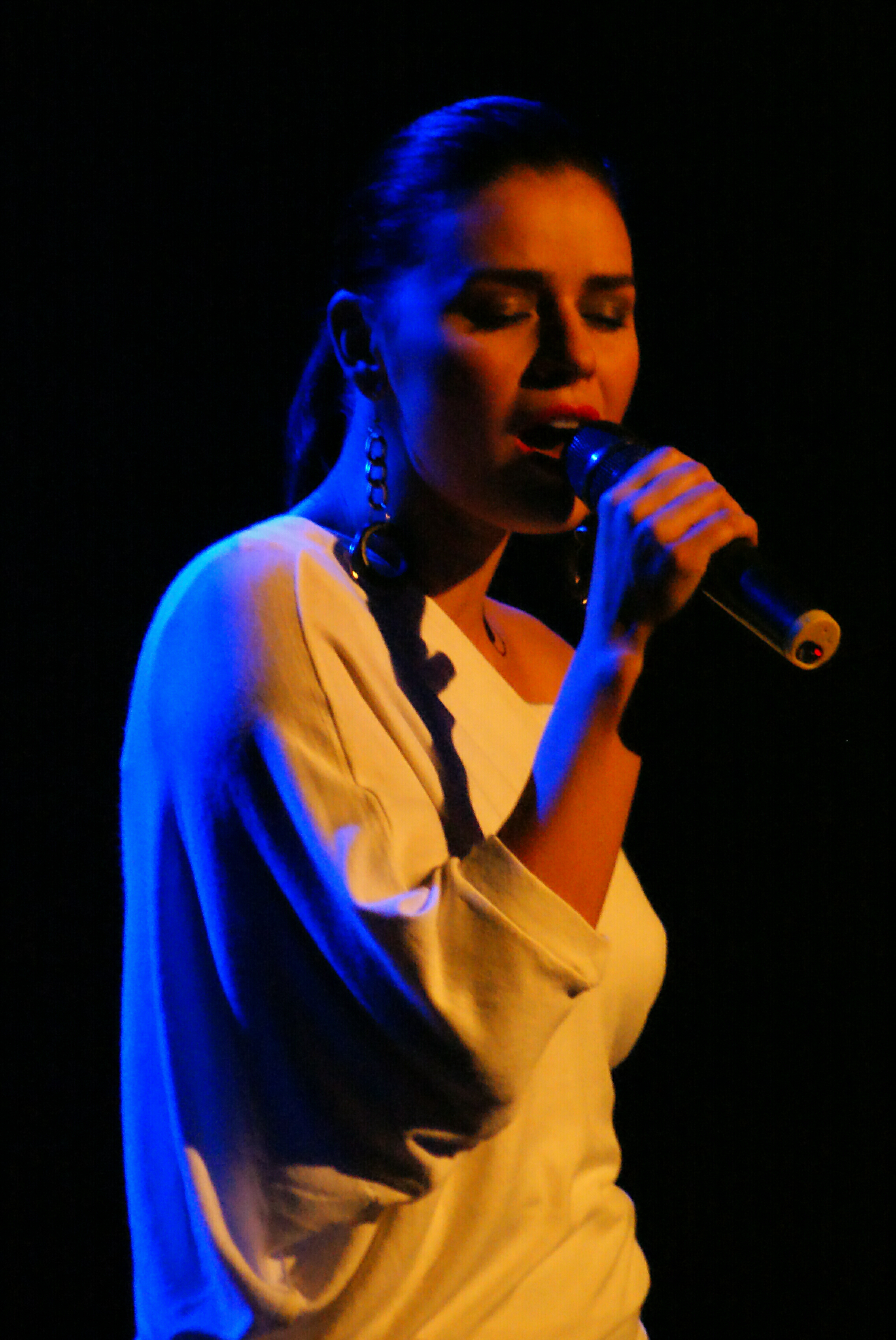 Natasza Urbańska performing at the Buffo Theatre